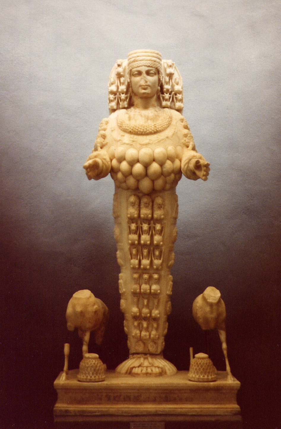 Artemis of Ephesus. 1st century CE Roman copy of the cult statue of the Temple of Ephesus. Statue in the Museum of Efes (Turkey).